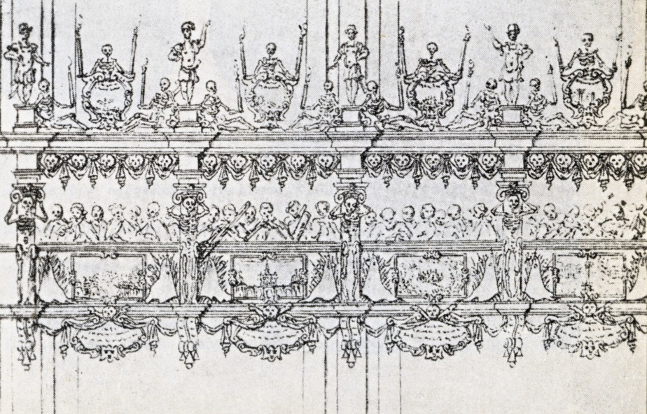 Orchestra of Władysław IV Vasa.